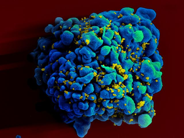 Image of an HIV-infected H9 T cell, colorized in blue, turqoise, and yellow set against a dark background. Credit: NIAID